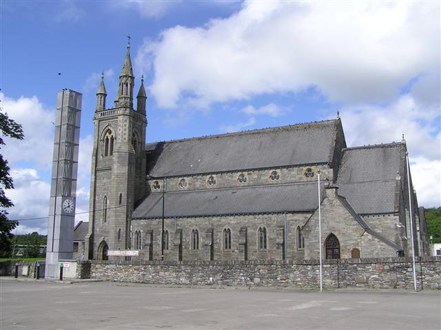 Church of Mary Immaculate, Stranorlar It is located on the west side of the town